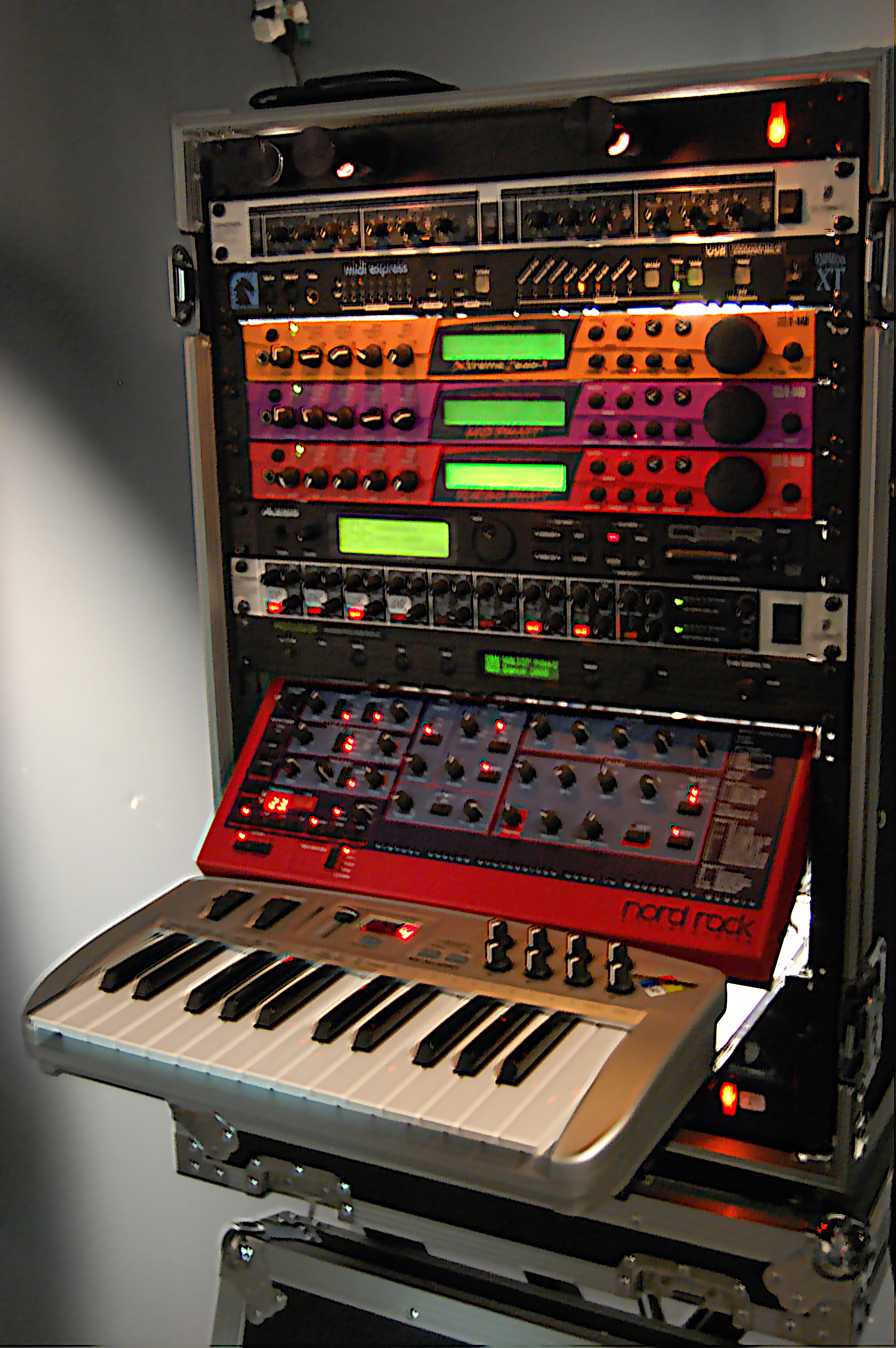 Power Conditioner Behringer SNR2000 Denoiser Mark of the Unicorn MIDI Express XT E-mu Extreme Lead-1 E-mu Mo'Phatt E-mu Turbo Phatt Alesis QSR Behringer RX1602 8ch/12in Line Mixer E-mu Proteus 1 Pop/Rock Clavia Nord Rack M-Audio Oxygen 8 keyboard